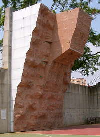 The Wei-Mei Climbing Wall at Tunghai University. Photo taken by Terrill.